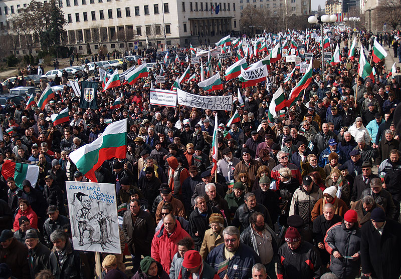 Attack rally in the center of Sofia on March 3, 2006 National Liberation Day of Bulgaria